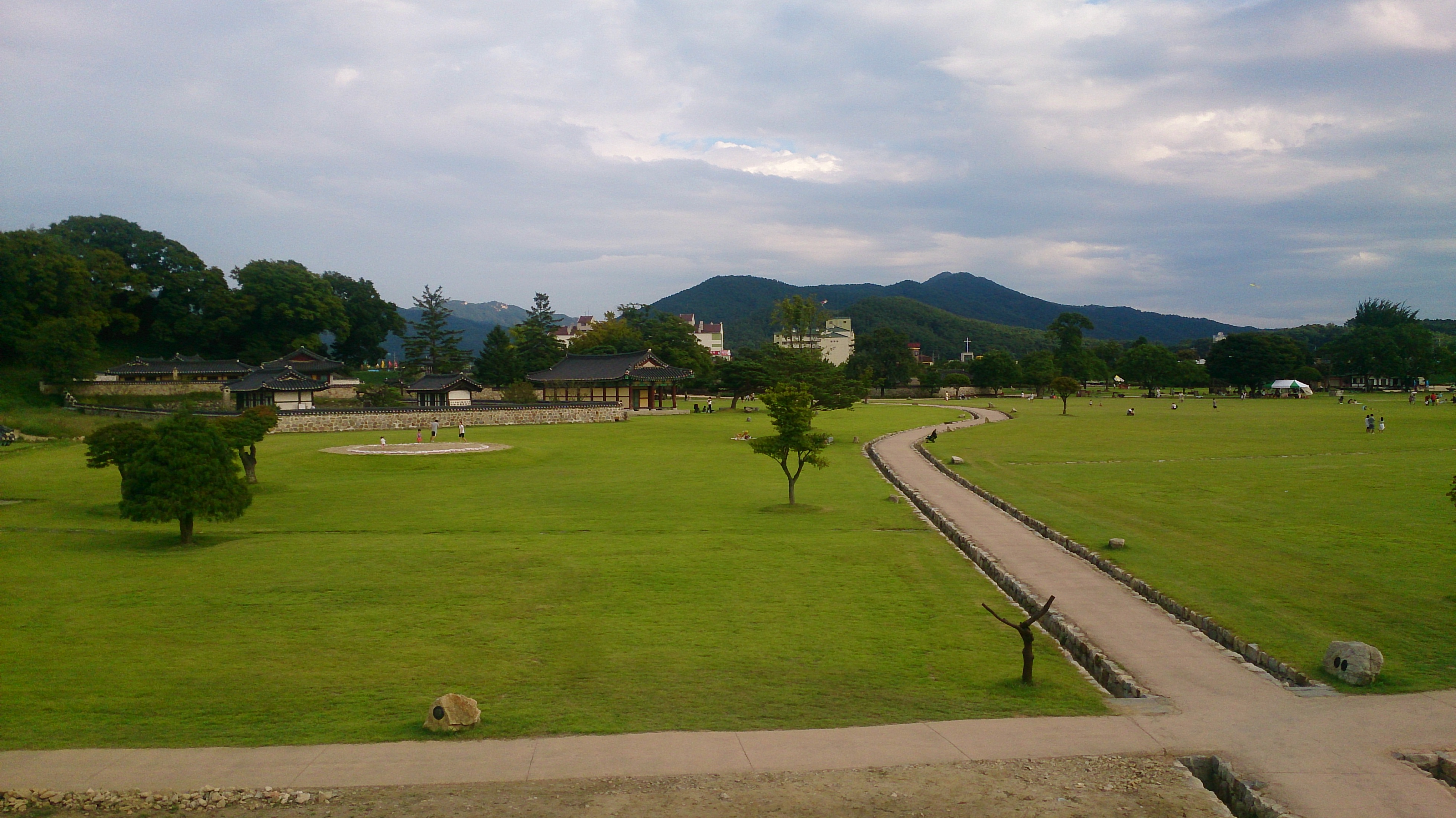 Inside Haemi